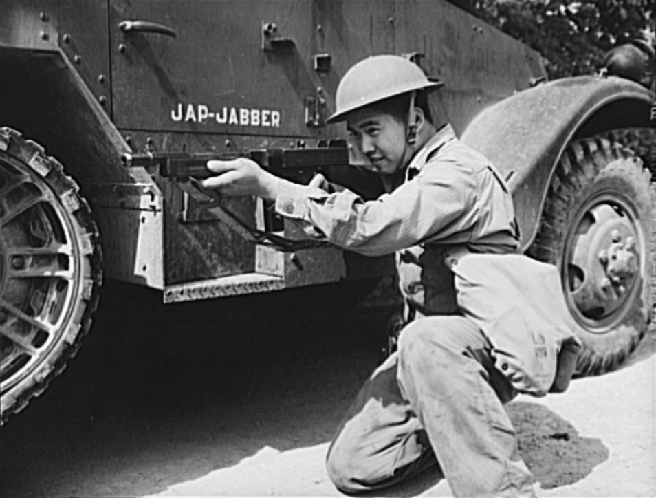 Fort Knox. Halftrac crews. A valued Chinese member of a halftrac armored car crew at Fort Knox, Kentucky, learns the art of making it hot for the Axis in any battle situation. The Fort Knox school for men of the armored service is teaching many American soldiers how to use mechanized striking equipment to best advantage. Its graduates are now on many of our far-flung battle lines, ready to meet the enemy on more than even terms.